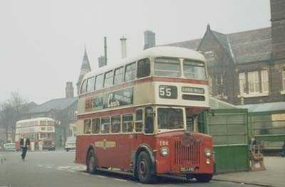 A photograph of a St Helens bus in original livery, 1968, taken by a family member.